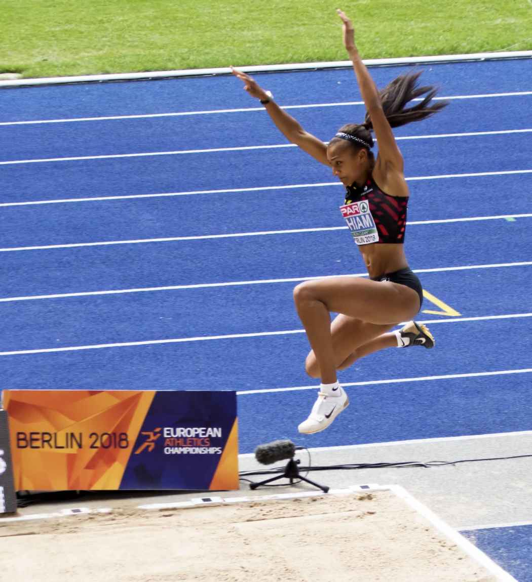 EKB41948 ver thiam